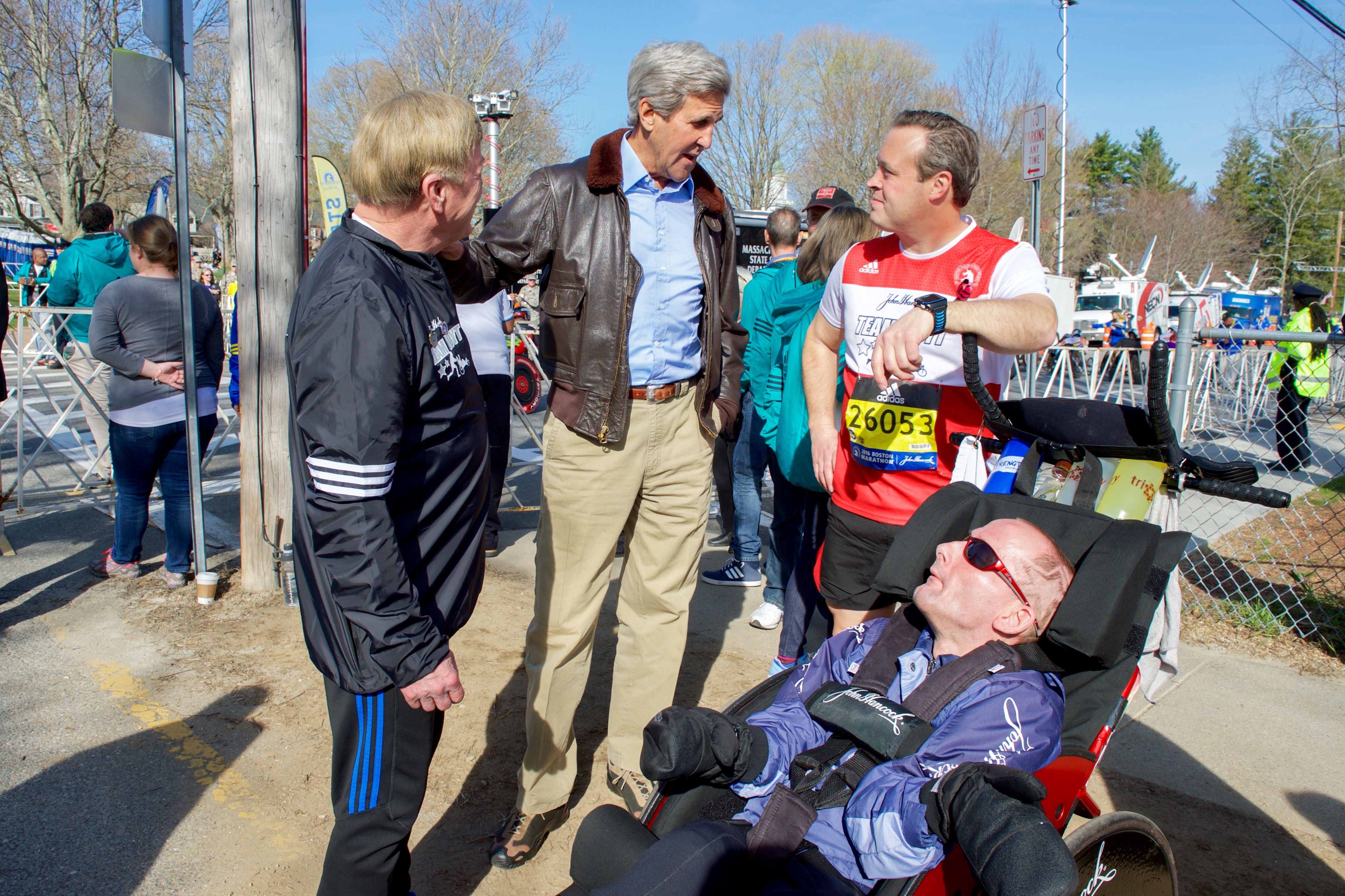 U.S. Secretary of State John Kerry greets Dick and Rick Hoyt and other family members - famed for bringing attention to physically challenged athletes - on April 18, 2016, in Hopkinton, Mass., before firing the starting gun for the men's and women's push-rim wheelchair divisions of the Boston Marathon. [State Department photo/ Public Domain]